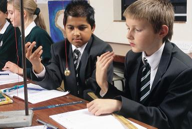 visual